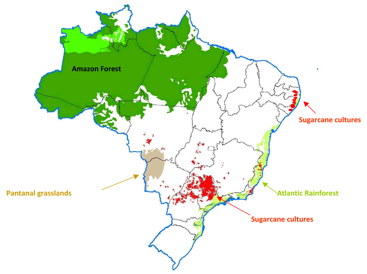 Map of Brazil showing regions where sugarcane is grown together with the main environmentally sensitive areas: Amazon forest, Pantanal wetlands, and Atlantic rainforest. This is Figure 1 from the paper indicated above.